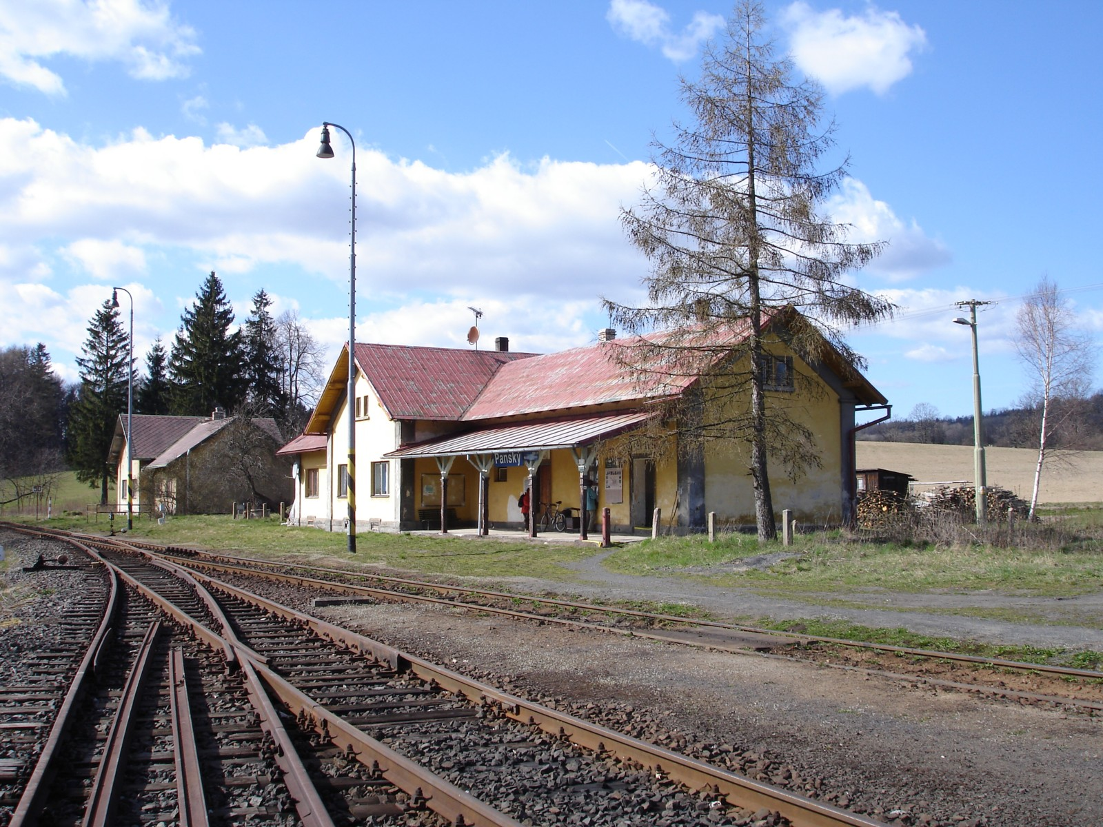 Station Panský, Czech Republic